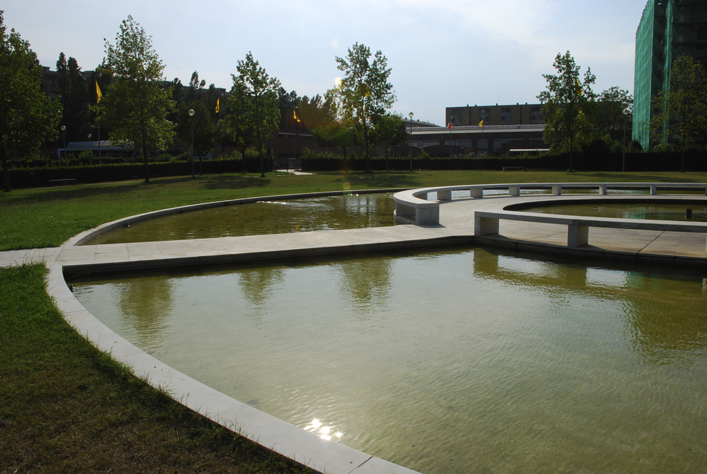 "Le Torri" Shopping Mall, Florence, Italy. Fountain.